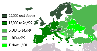 Modified version of Image:Western Europe